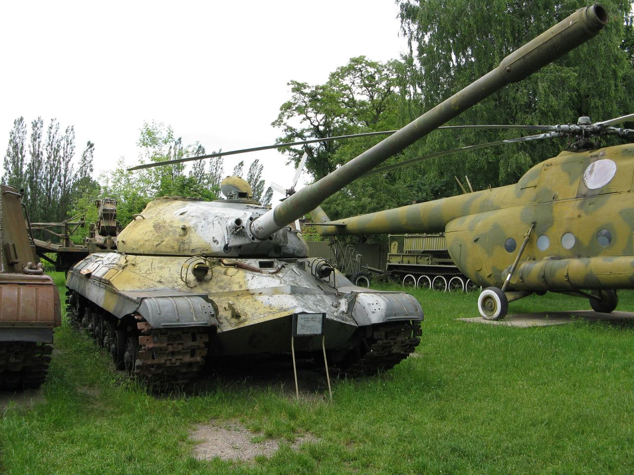 T-10, Lutsk, Volynskiy regional museum of Ukrainian army